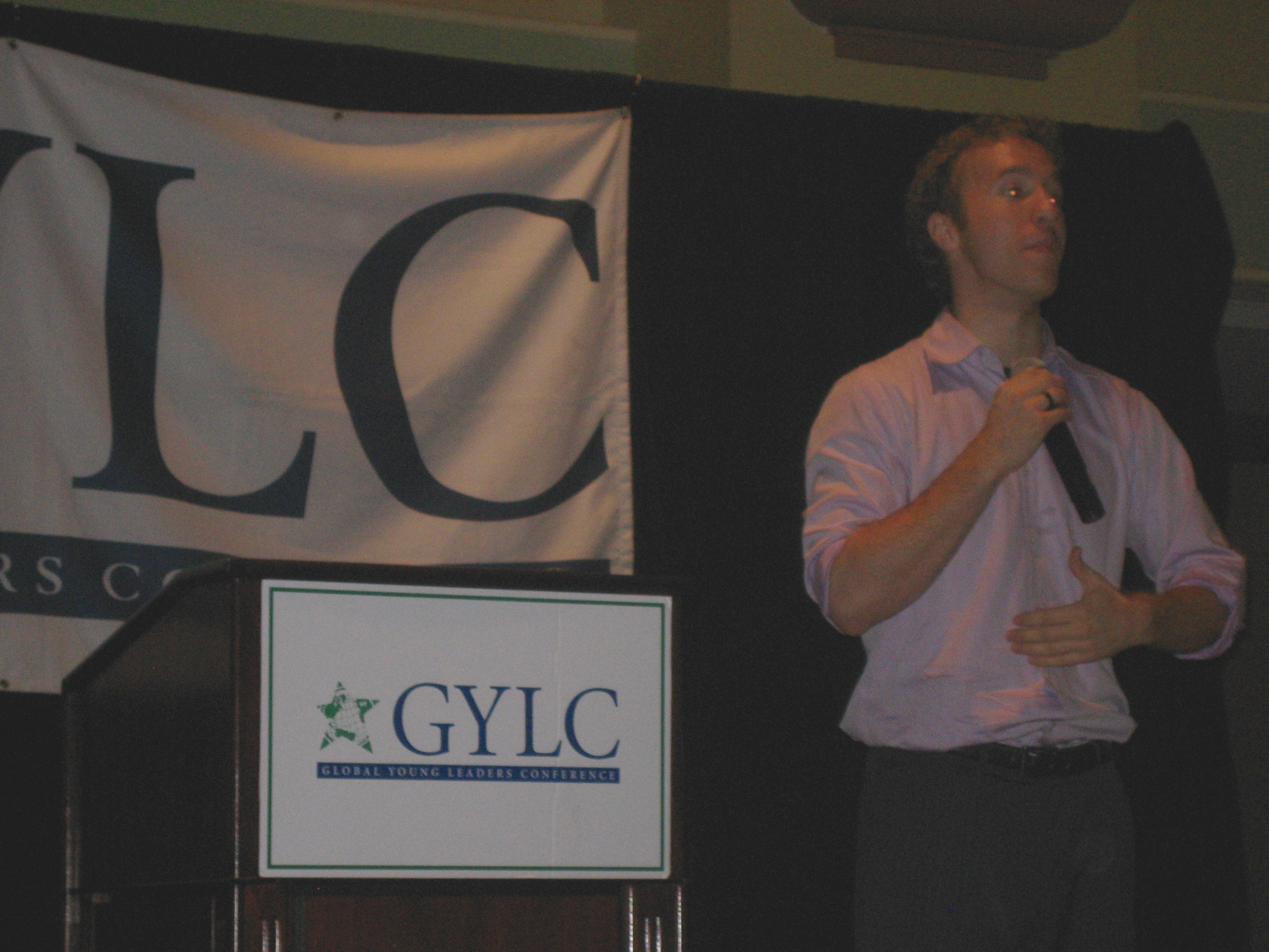 Craig Kielburger